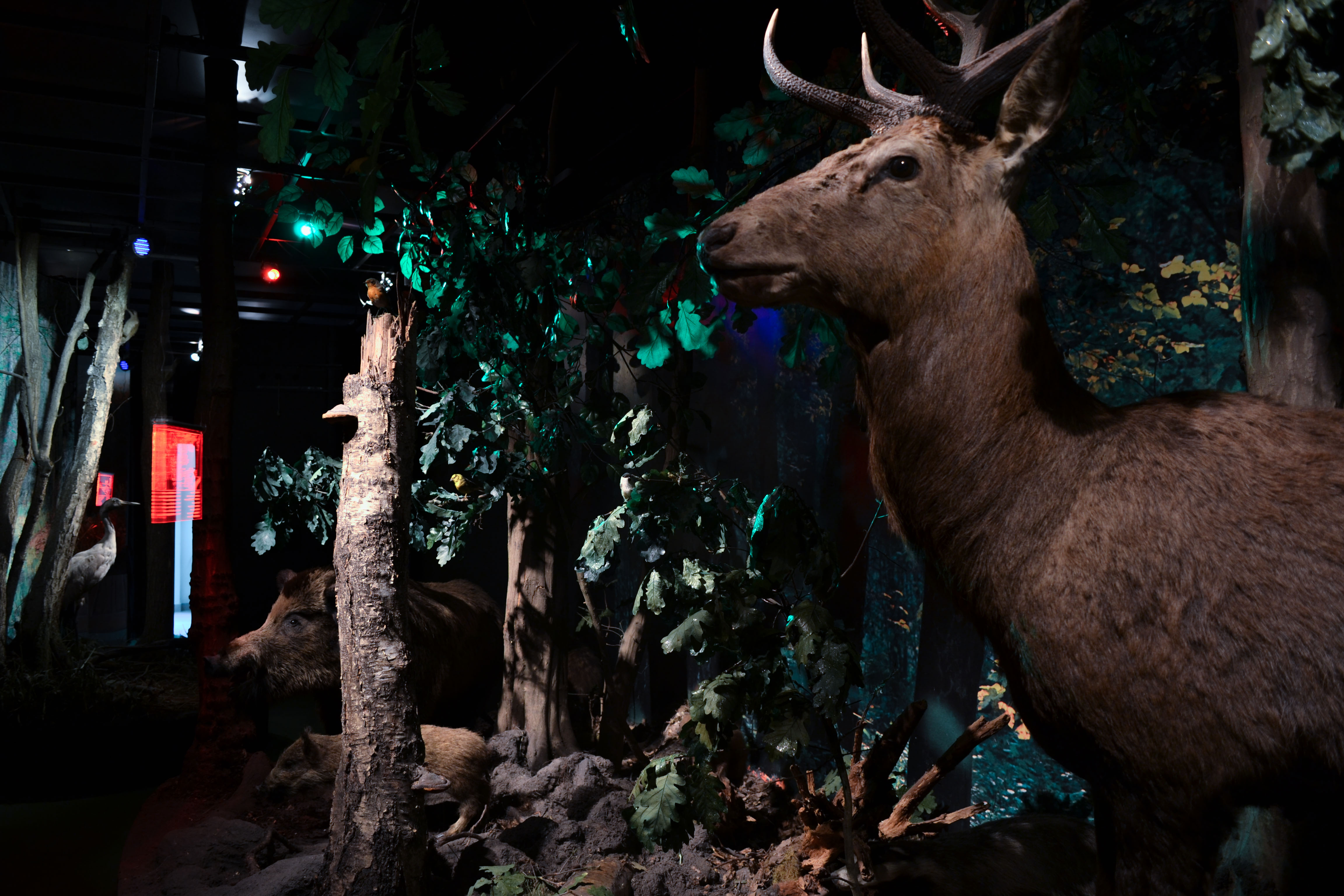 Natural exhibition, Jacek Malczewski Museum in Radom, Poland